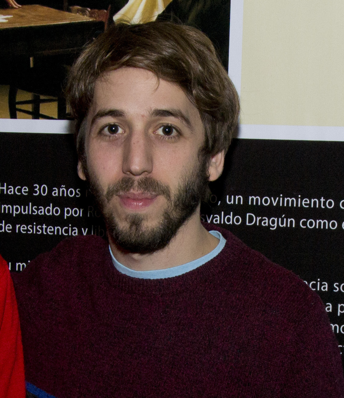 Buenos Aires, 15 de julio de 2014.- Olmi y Piroyansky conmemorando los 30 años del nacimiento de Teatro Abierto.